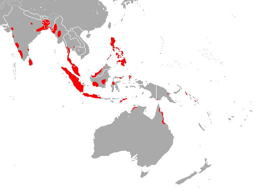 Naked-Rumped Pouched Bat (Saccolaimus saccolaimus) range